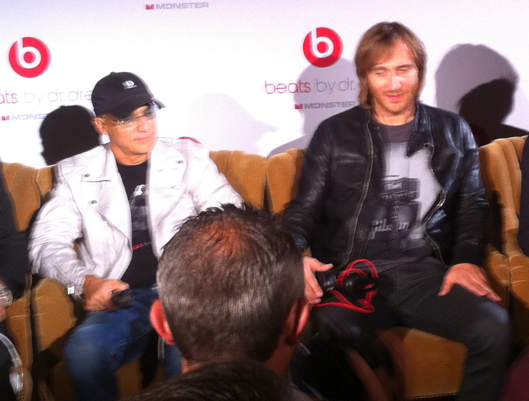 Jimmy Iovine at the press conference for Beats by Dr Dre sitting beside David Guetta